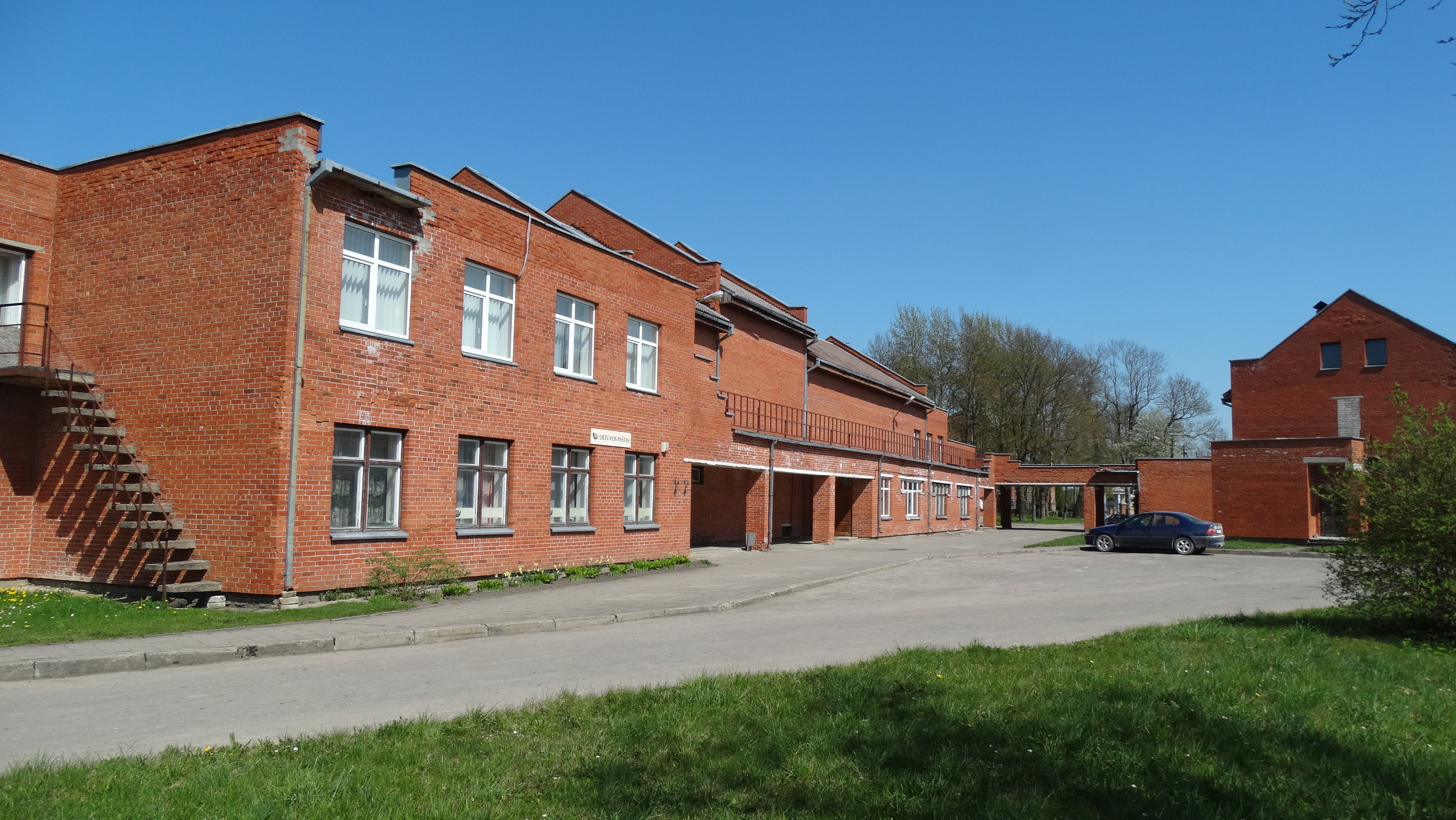 Centre of culture, Gelvonai, Širvintos District, Lithuania